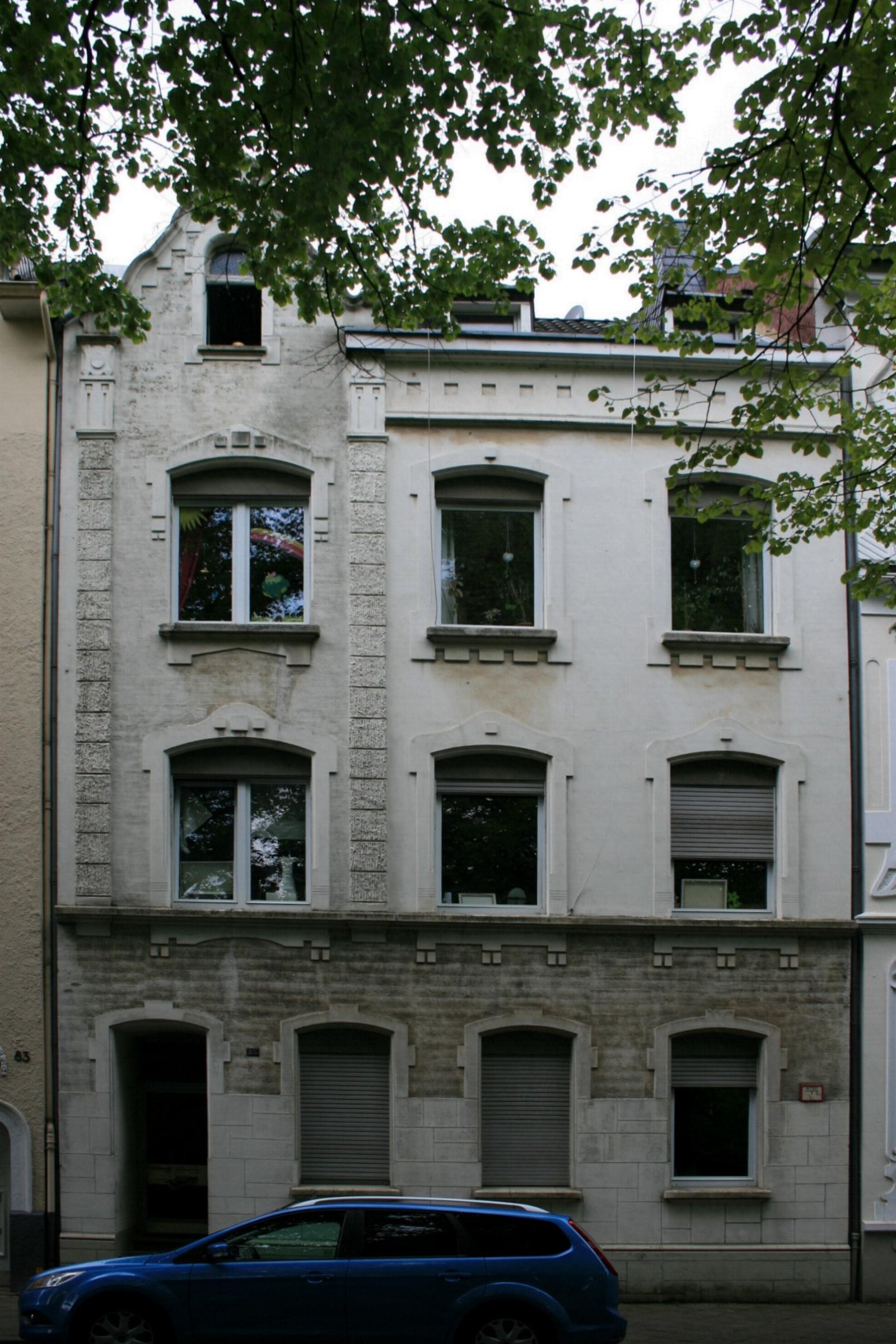 Cultural heritage monument No. B 049 in Mönchengladbach